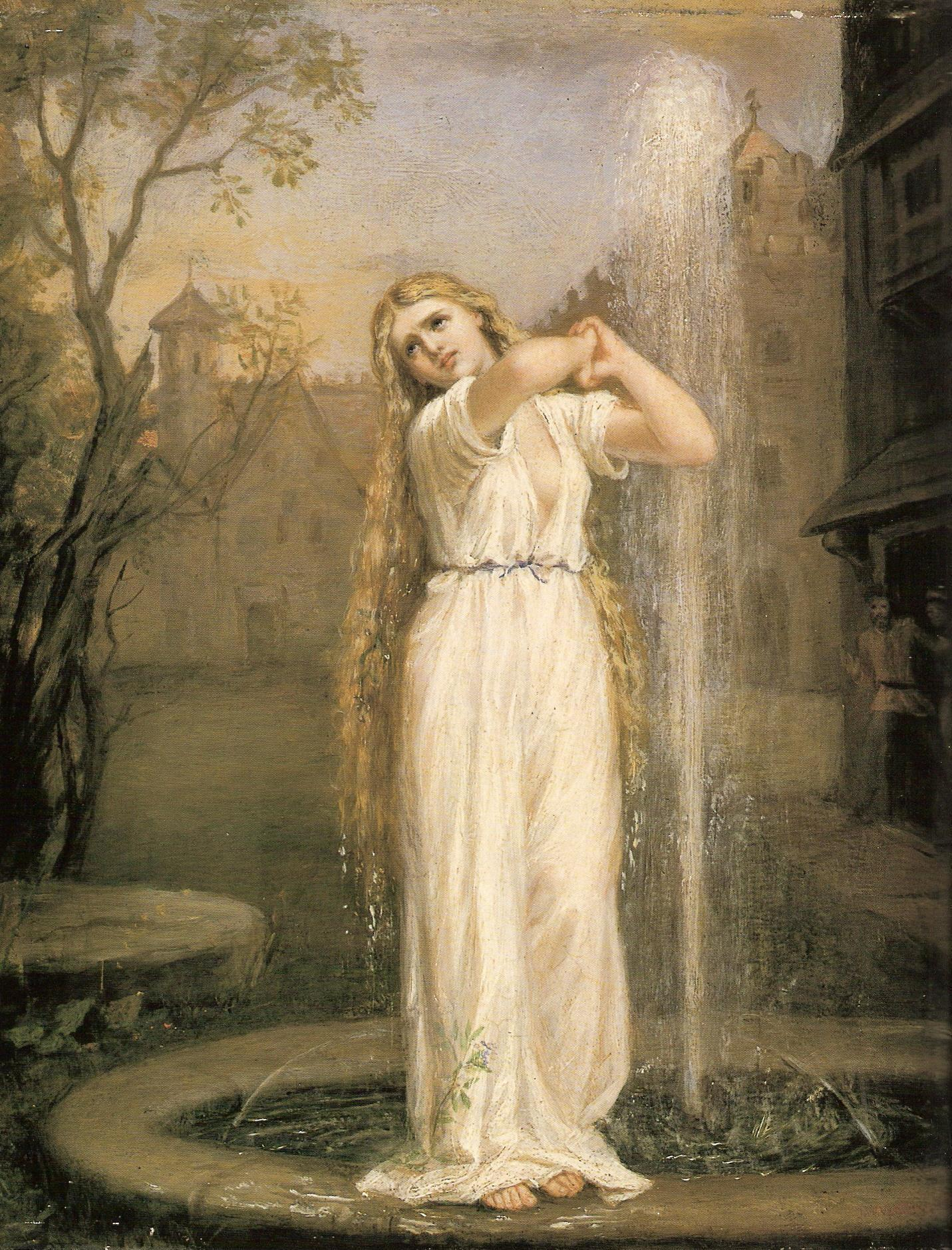 Oil painting of Undine, sea nymph who married Knight Adami Turns up to Adami.